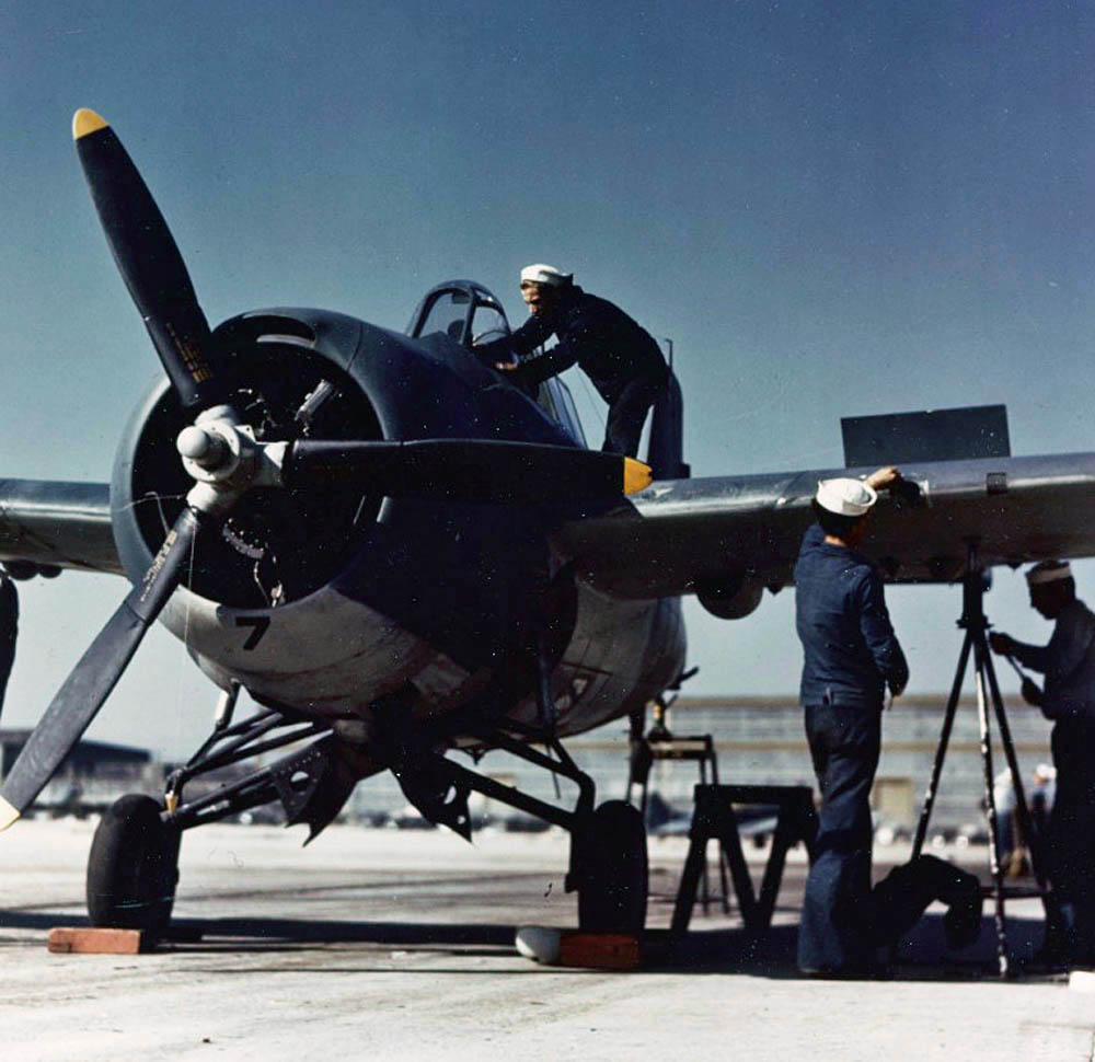 A U.S. Navy Grumman F4F-4 Wildcat receives maintenance of the six Browning M2 12.7 mm (0.50 caliber) machine guns at a base in the United States, 1942/43.